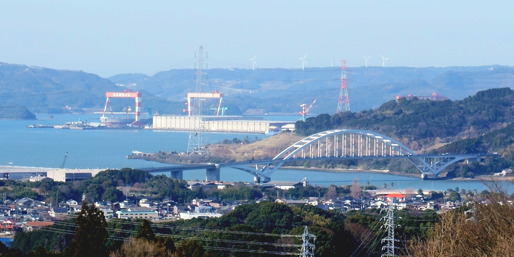 A distant view of Imari Bay Bridge and Imari Facility of Namura Shipbuilding(in Kurogawacho, Imari city), taken from Higashiyamashirocho, Imari city.